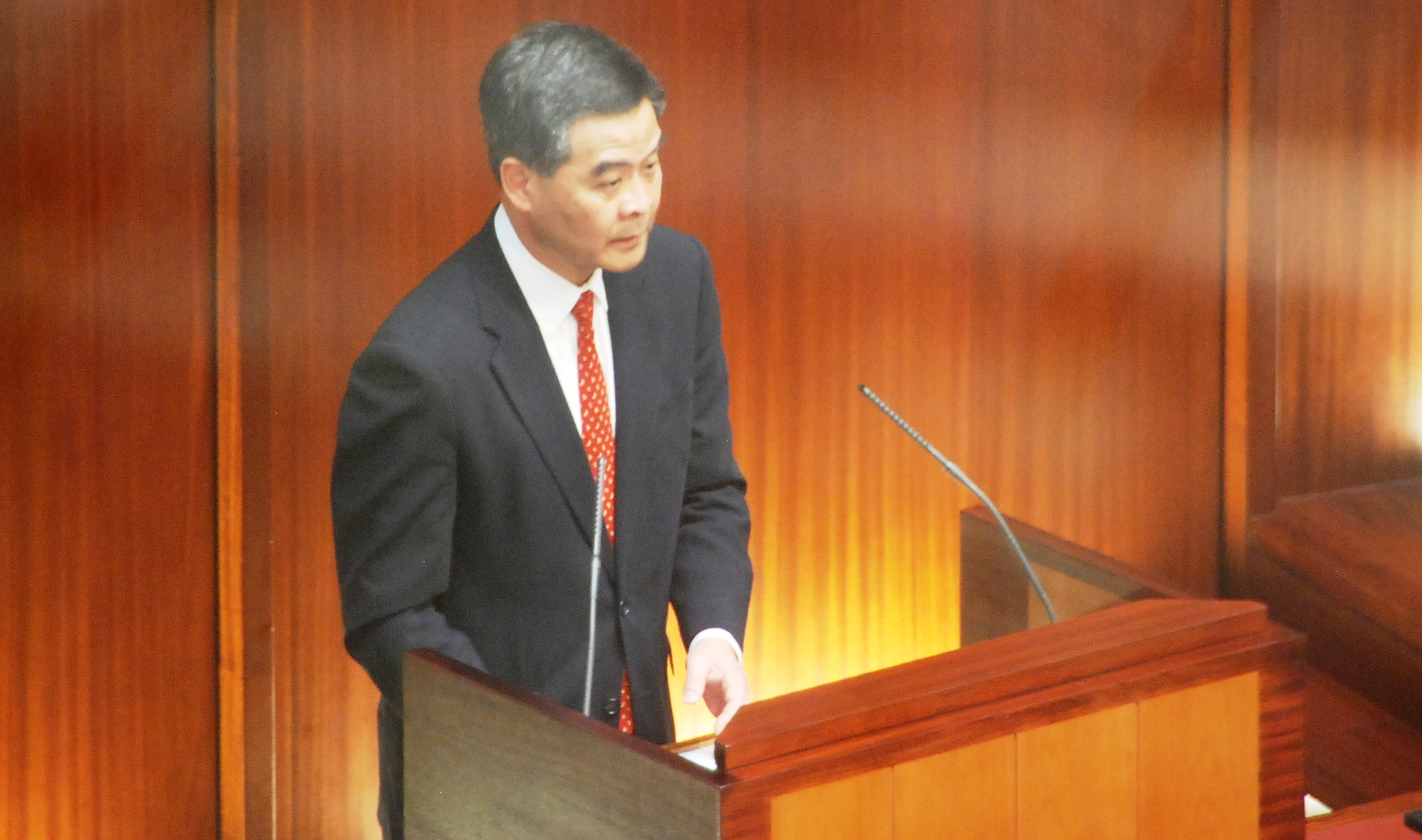 Hong Kong Chief Executive Leung Chun-ying attends his first question and answer session at the Legislative Council.